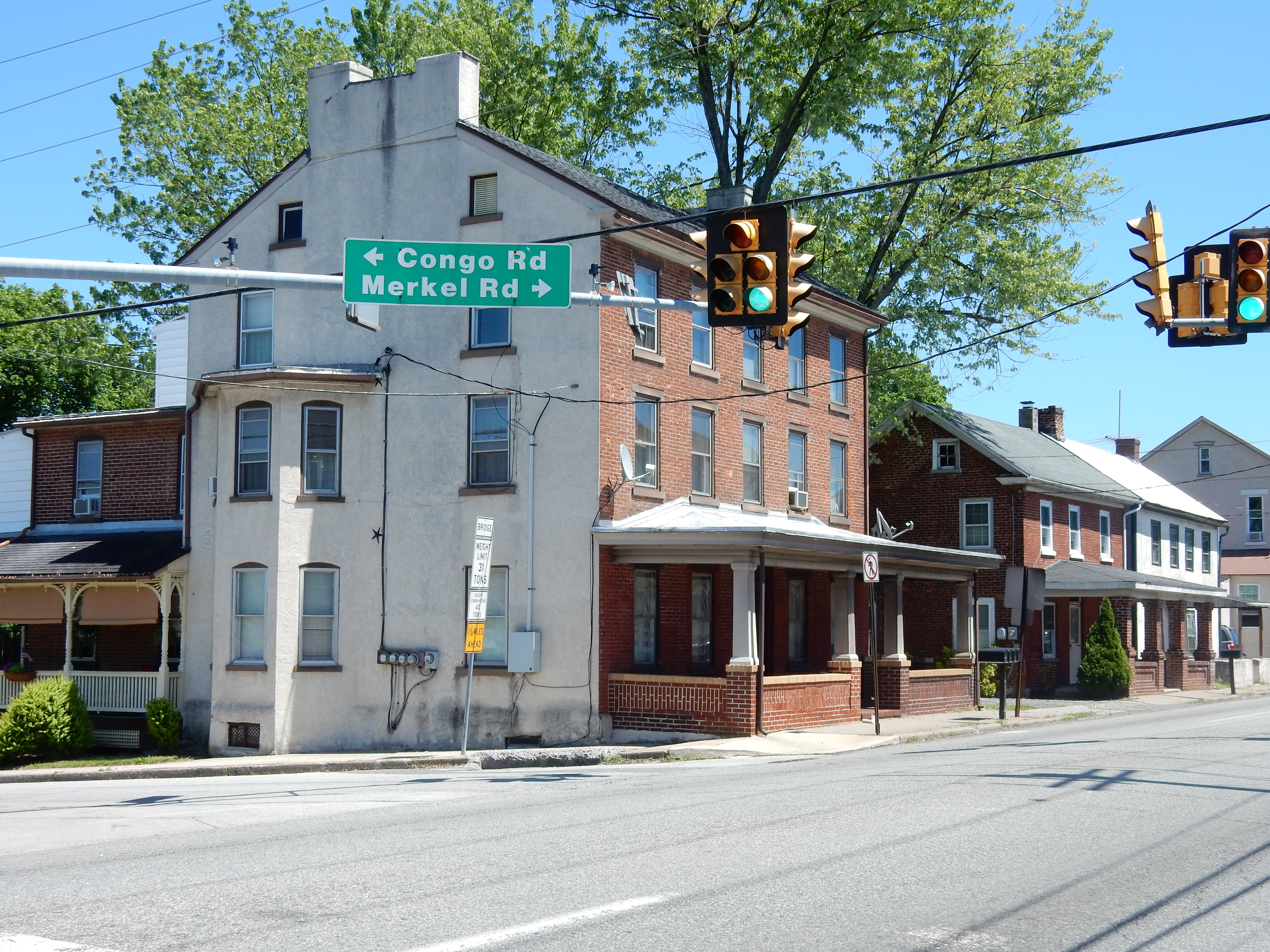 Intersection of E. Philadelphia Ave. and Merkel Rd., Gilbertsville, Pennsylvania.